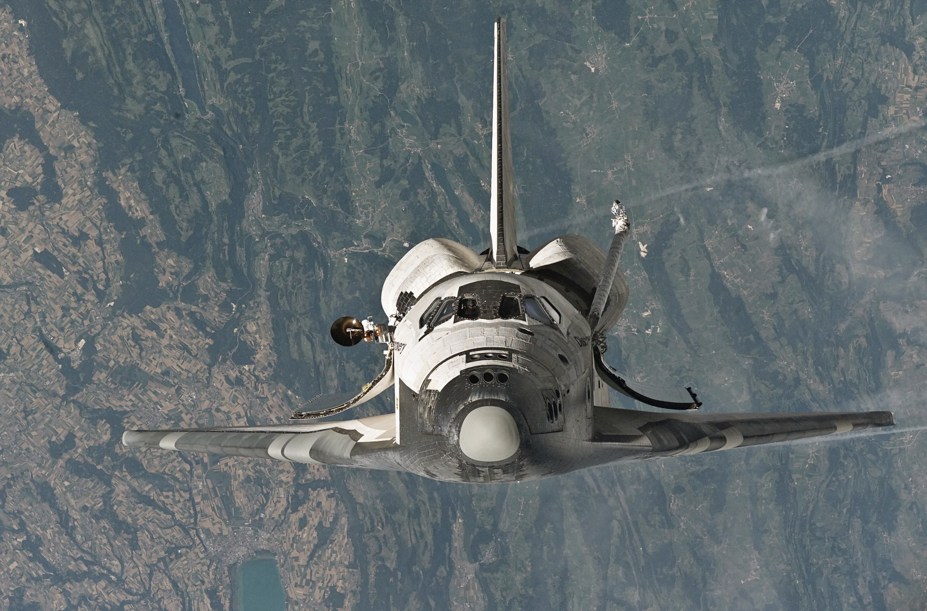 Discovery was about 600 feet from the International Space Station when Expedition 11 Station Commander Sergei Krikalev and Station NASA Science Officer and Flight Engineer John Phillips took photos for about a minute and a half as Discovery Commander Eileen Collins guided the spacecraft through the first ever Rendezvous pitch maneuver during STS-114. Space Shuttle Discovery approaches the International Space Station. On the left side of the image (under the left wing) is Lake Neuchatel, Switzerland. The city at the end of the lake is Yverdon. The Jura Mountains (most of the green portion of the background) are to the right in the image. Discovery later docked to the Station at 6:18 a.m. (CDT) on Thursday, July 28, 2005 as the two spacecraft orbited over the southern Pacific Ocean west of the South American coast. Onboard the Shuttle were astronauts Eileen M. Collins, STS-114 commander; James M. Kelly, pilot; Andrew S. W. Thomas, Stephen K. Robinson, Wendy B. Lawrence, Charles J. Camarda and Japan Aerospace Exploration Agency (JAXA) astronaut Soichi Noguchi, all mission specialists.